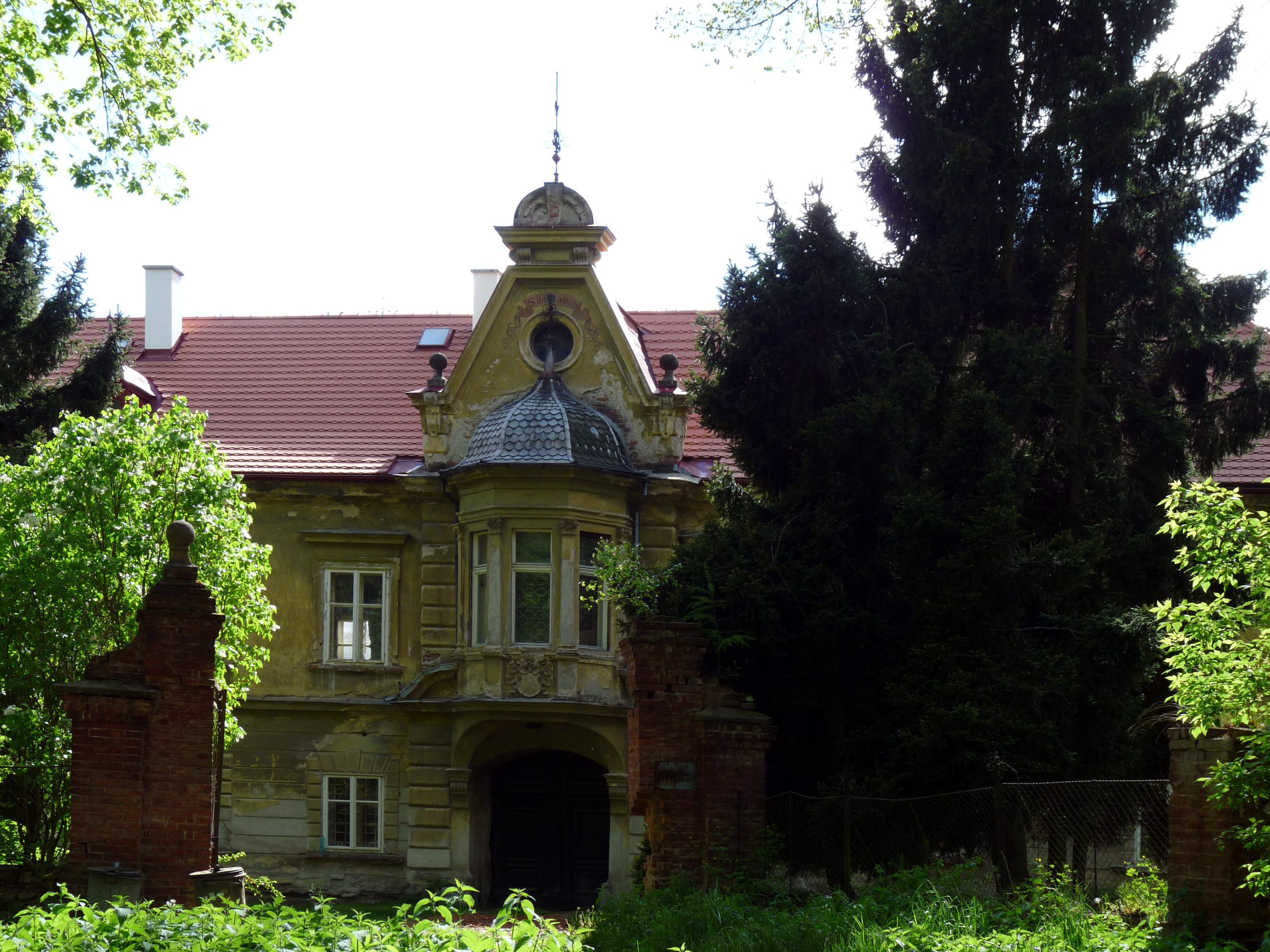 Chapel at the chateau in the village of Březina, municipality of Hořepník, Pelhřimov District, Vysočina Region, Czech Republic.